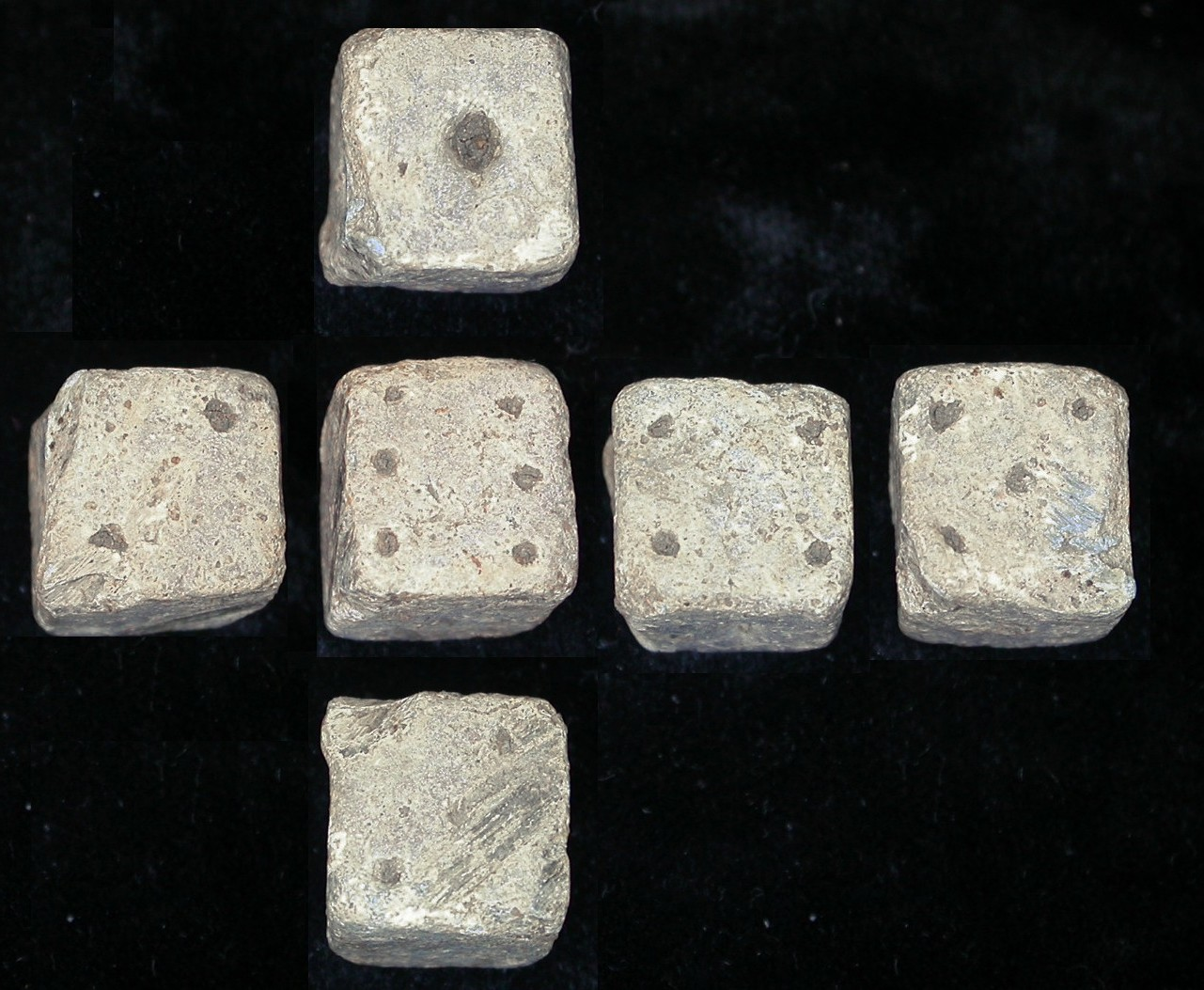 Roman lead dice. A cube measuring 12x12x12mm, with one to six impressed dots on each face.